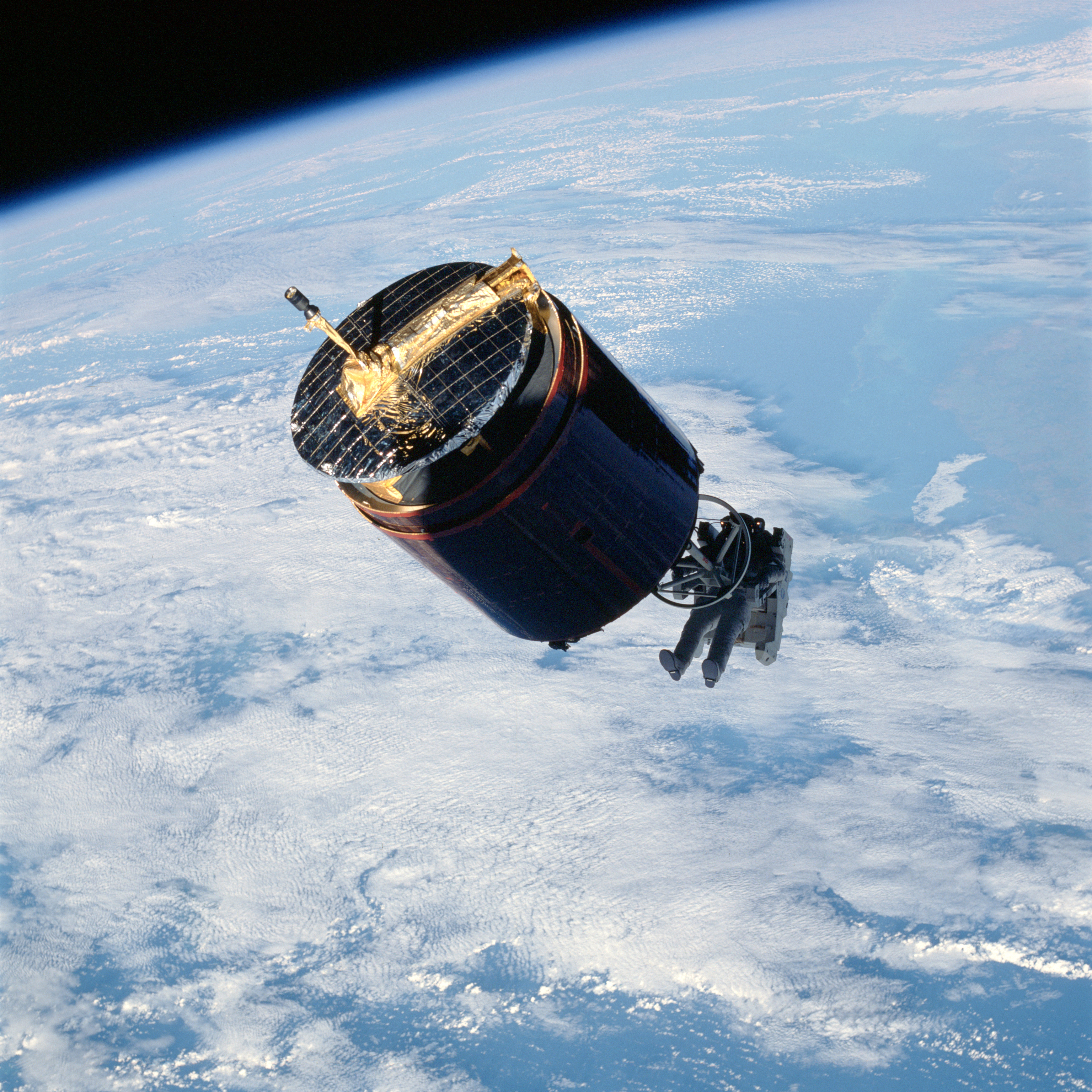 View of the Westar 6 satellite while Dale Gardner retrieves it during STS-51-A. Astronaut Dale A. Gardner, wearing the manned maneuvering unit (MMU) approaching the spinng Westar VI satellite over Bahama Banks. Gardner uses a large tool called the apogee kick motor capture device (ACD) to enter the nozzle of the spent Westar engine and stabilize the satellite to capture it for return to Earth.